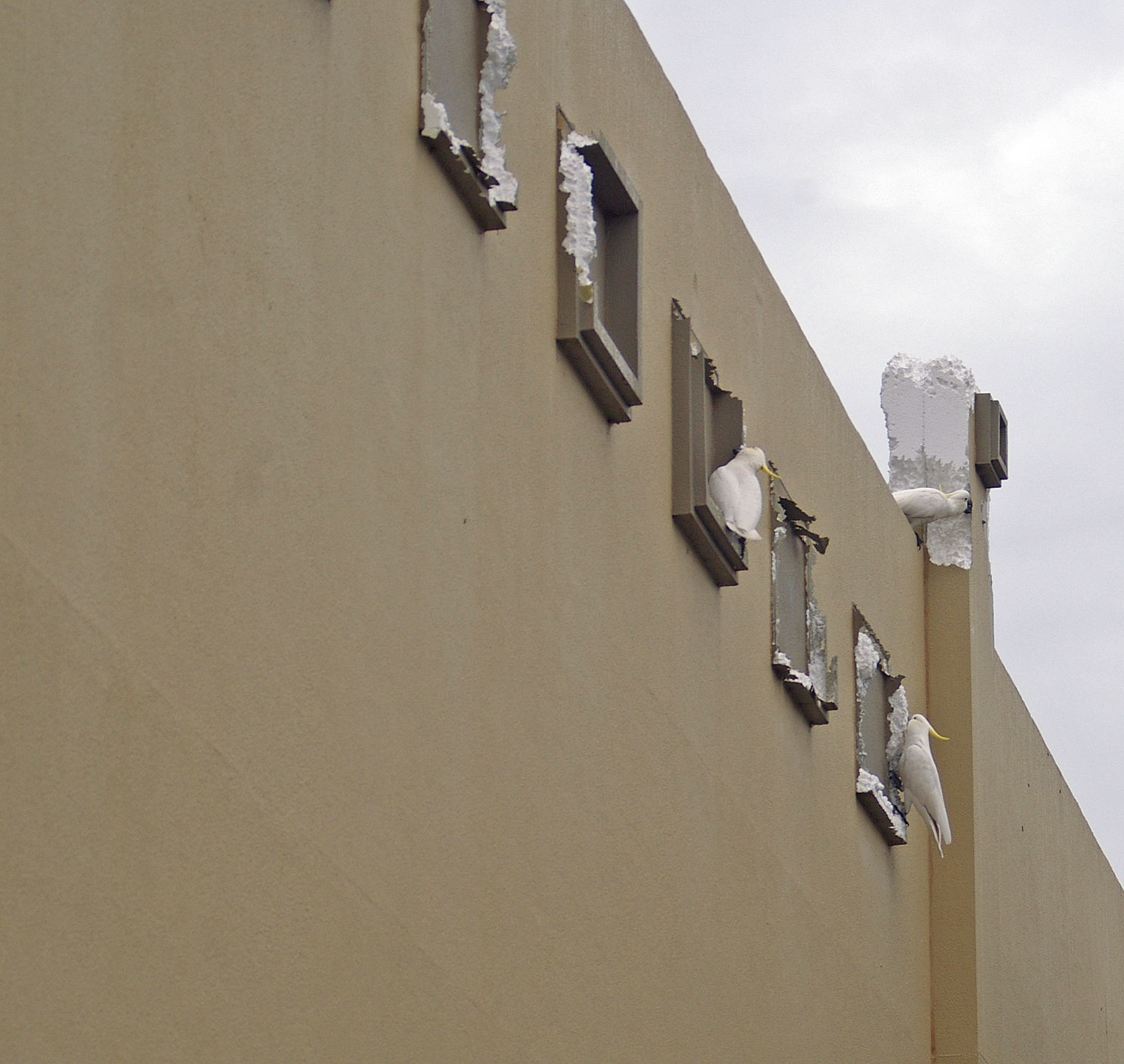 Sulphur-crested Cockatoos damaging the Sturt Mall shopping centre facade, made from Polystyrene and painted over with exterior paint.